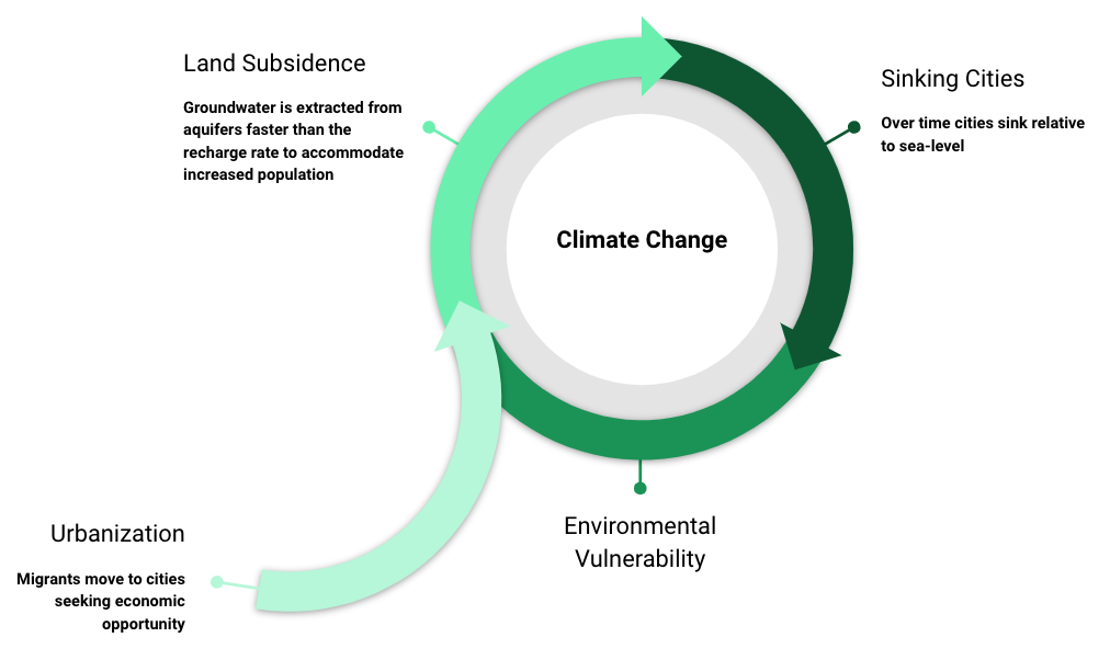 This diagram depicts the interconnected factors leading to sinking cities